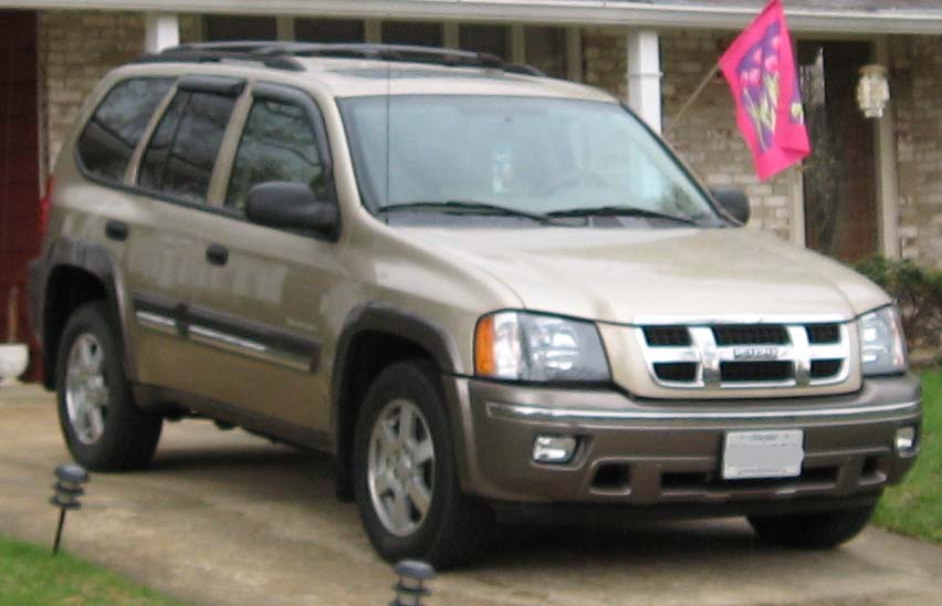 2004-2007 Isuzu Ascender photographed in USA.